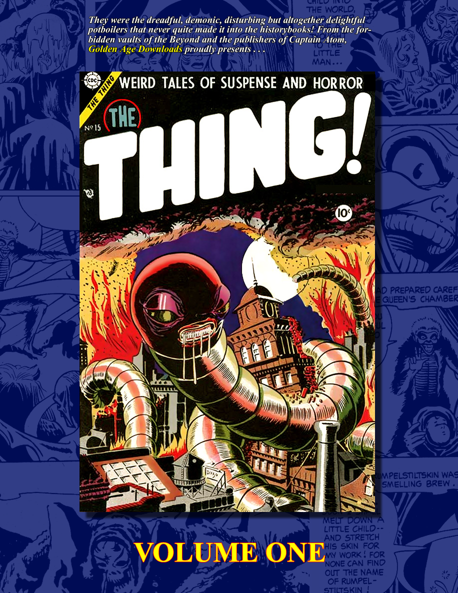 Cover illustration for Charlton Horror Library vol. 1, composed by SimonKirby. Image is in the public domain due to lapsed copyright of the original source material.